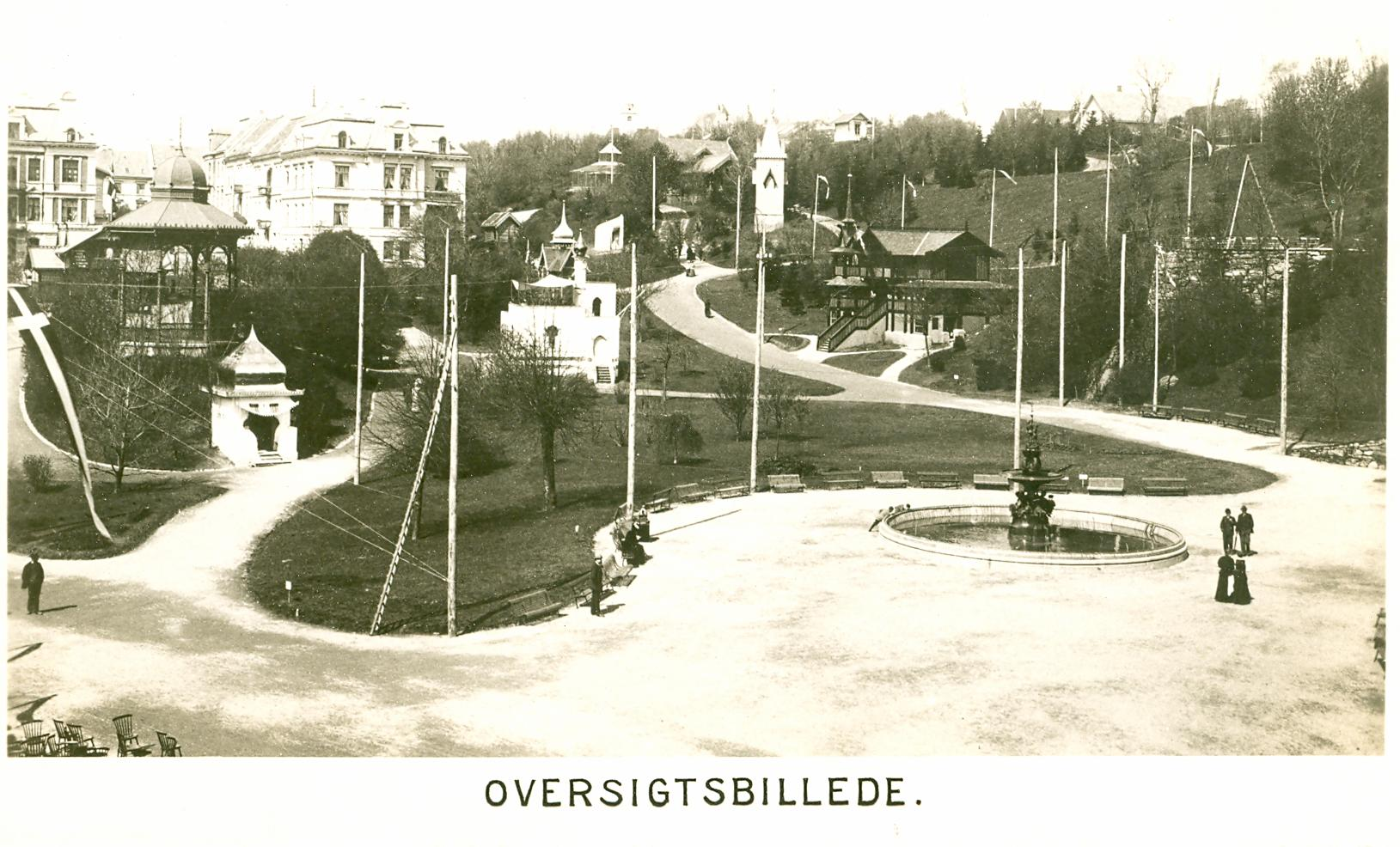 Artist: K. Nyblin Date/place: 1898, Bergen/Norway Subject: View of Nygårdsparken seen from the Industry hall. Medium: Postcard Notes: none Persistent URL: Original belongs to the Local Collection at Bergen Public Library